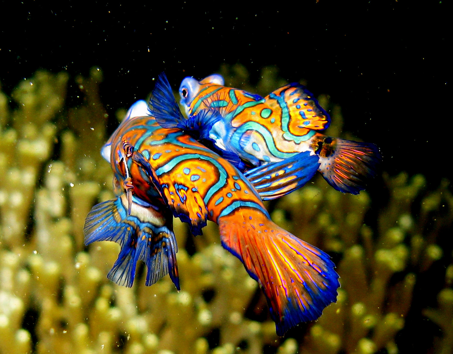 Mandarin Fish (Synchiropus splendidus) - mating